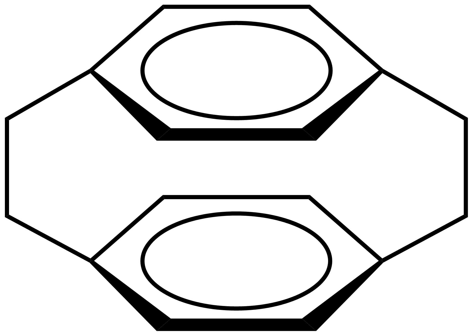 Chemical structure of [2.2]paracyclophane